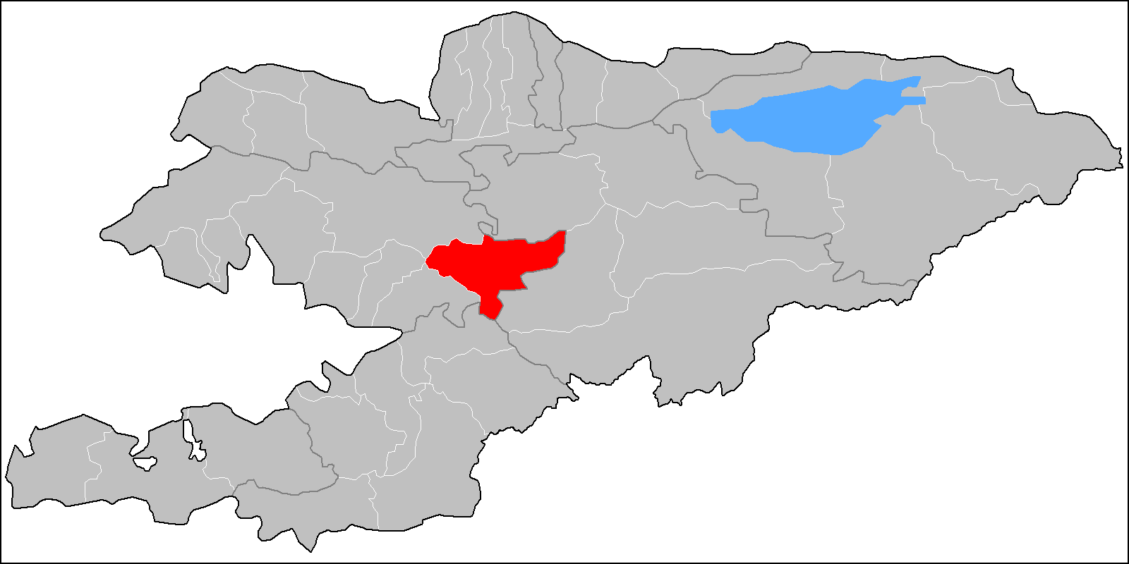 The location of the raion (district) of Toguz-Toro in Kyrgyzstan. Based on Image:Kyrgyzstan raions.png